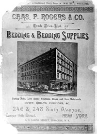 Old Factory in New York Image:Old_ny_factory.jpg